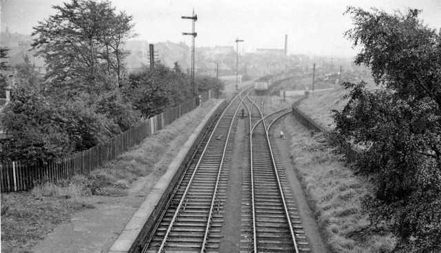 Bathgate Lower Station -- remains. Near to Bathgate, West Lothian, Great Britain. View SE, towards Bathgate Upper. The station, on the branch to Bathgate Upper from Blackstone Junction on the Monklands Railway (Kirkintilloch - Causewayend), had been closed to passengers on 1/5/30, but Bathgate Lower remained open for Goods until 28/10/63 and the line was still used from Blackstone Junction until 1/5/67 and to Bathgate Upper until as late as 3/9/73. This explains the shiny rails in this picture taken in September 1962.